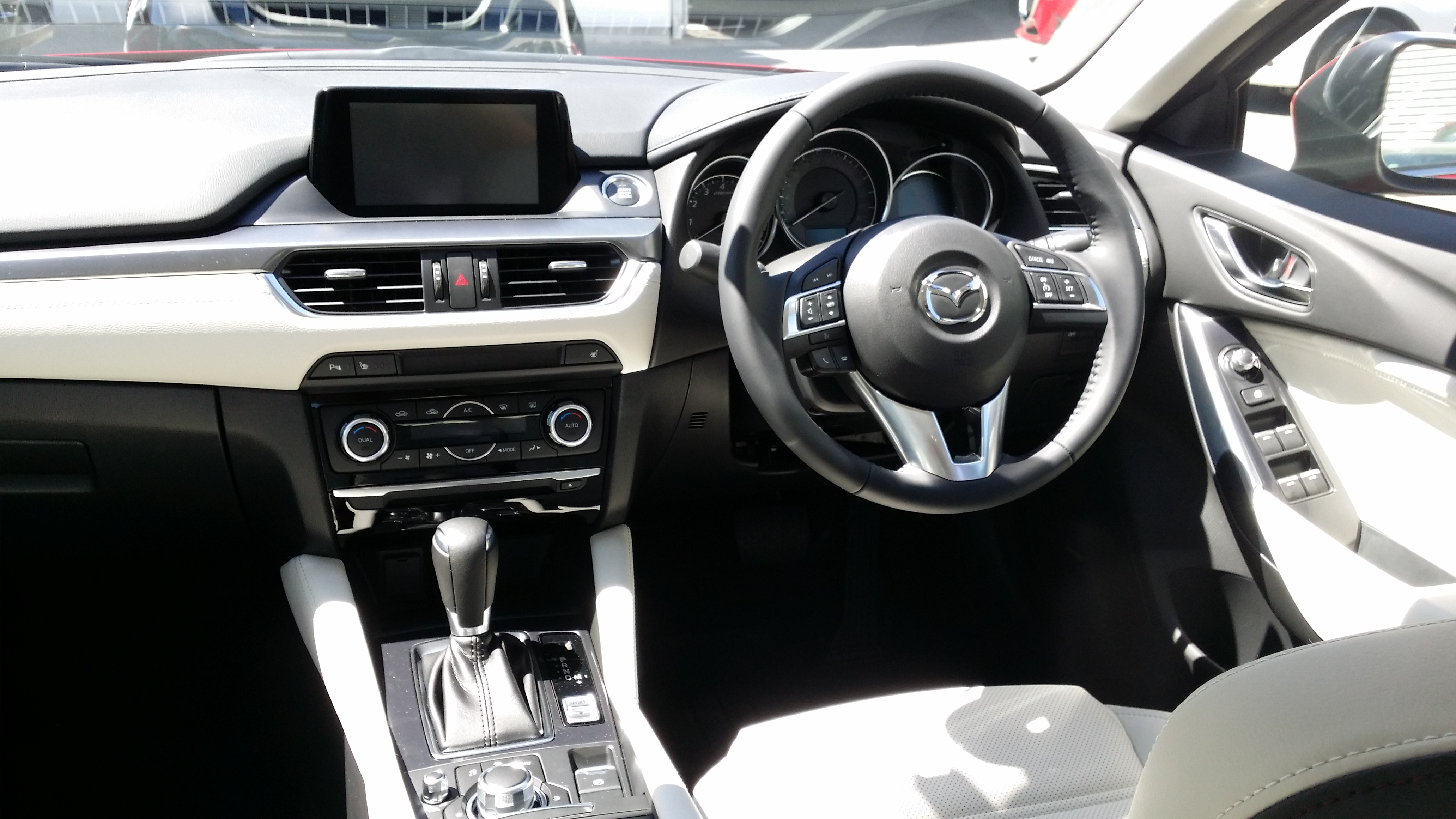 We received our first new facelifted Mazda 6 today, a GT in Soul Red. I really like what they've done with the upgrades, especially the polished alloy wheels, simpler grill and the new centre console upgrade. They've also done away with the handbrake lever and there is now an electric handbrake button, like what's also found in the new facelifted CX-5, which was also released in Australia last week.